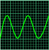 Diagram drawn by theresa knott